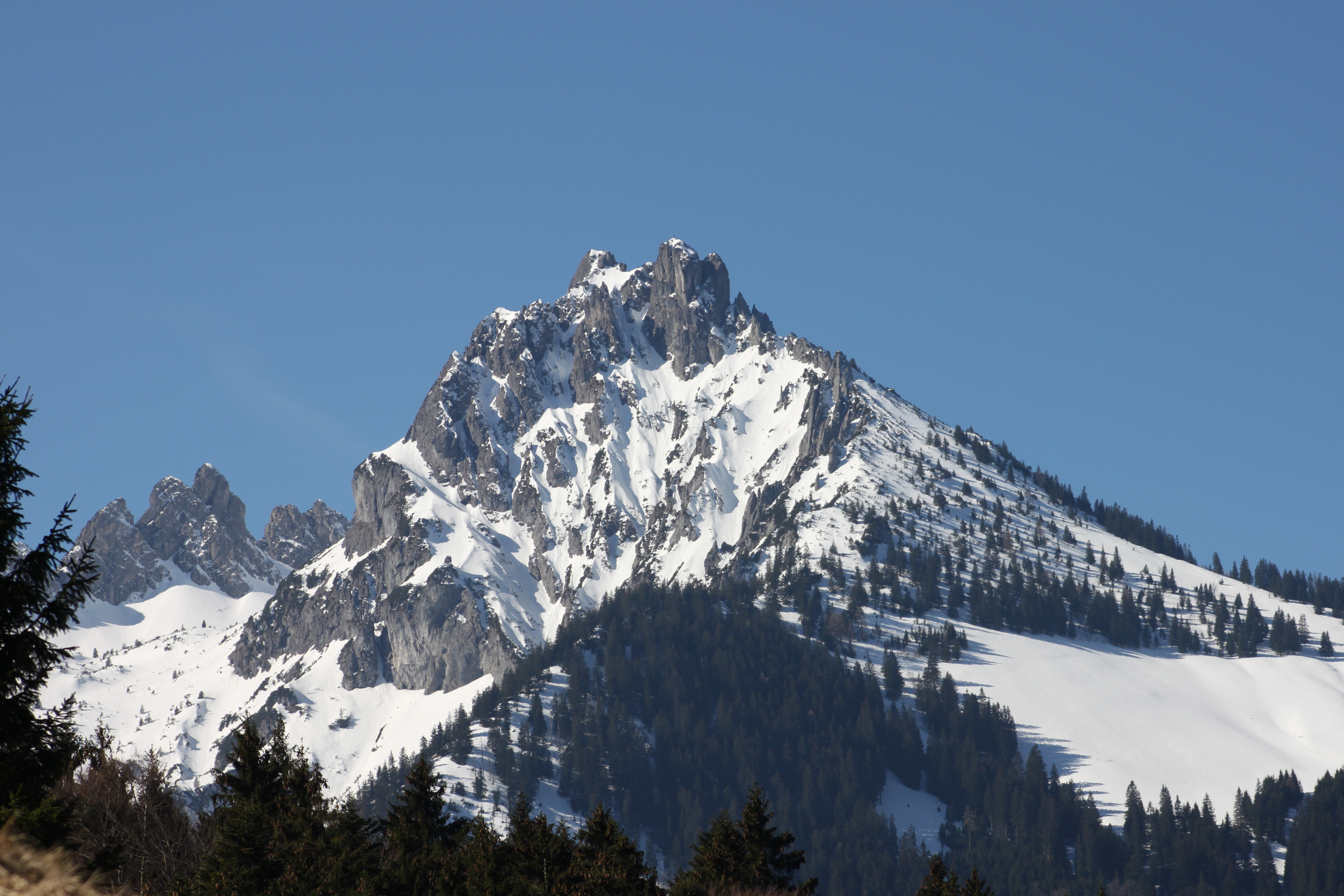 Drei Schwestern (Meaning: Three sisters), mountain peaks in the border area between Austria (Frastanz) and Liechtenstein.